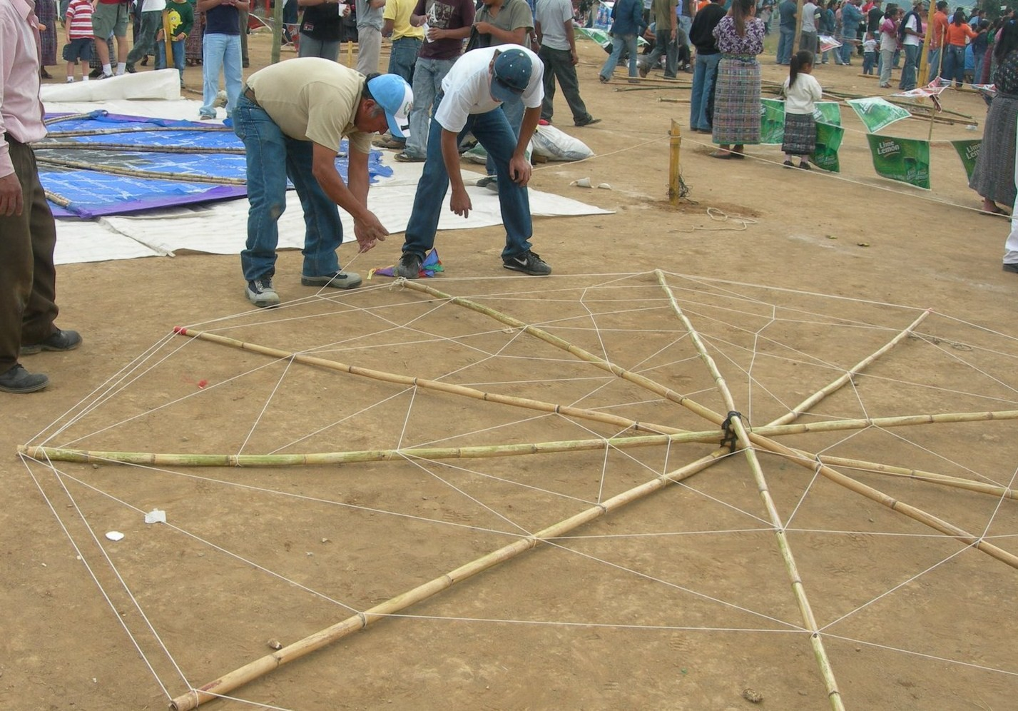 Festivalsumpangofabricacion.JPG